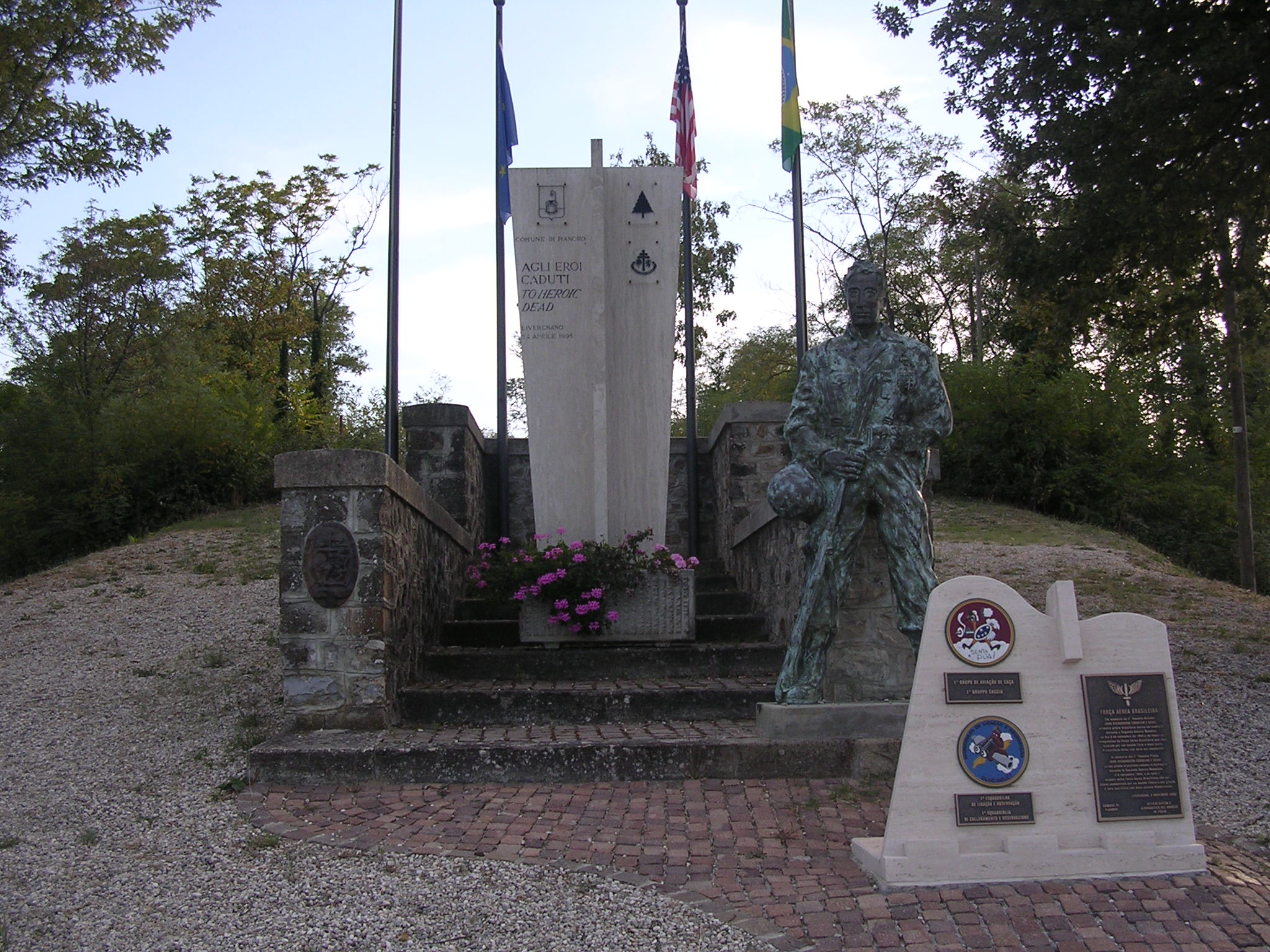 Livergnano, Pianoro, Bologna, Italy - monument in memory of 91st Division American Force and Brasilian aviation who died in the area between 1944 and 1945 on the Gothic Line